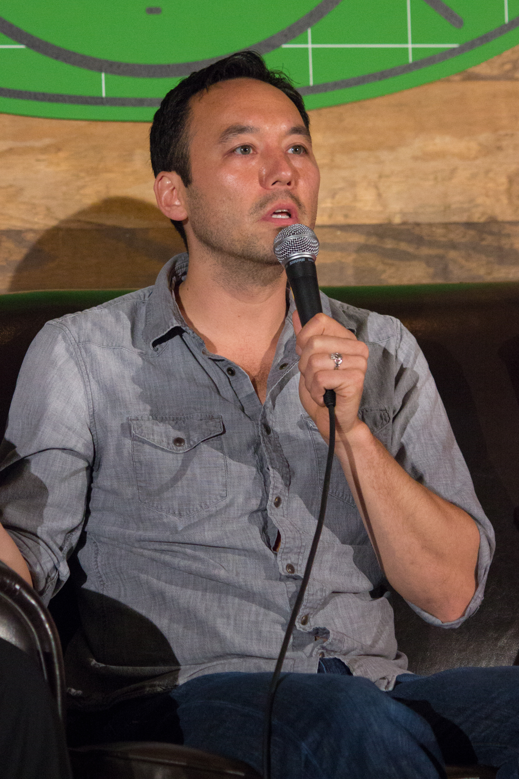 Actor Steve Byrne at the ATX TV Festival 2014 for the TV show "Sullivan and Son"